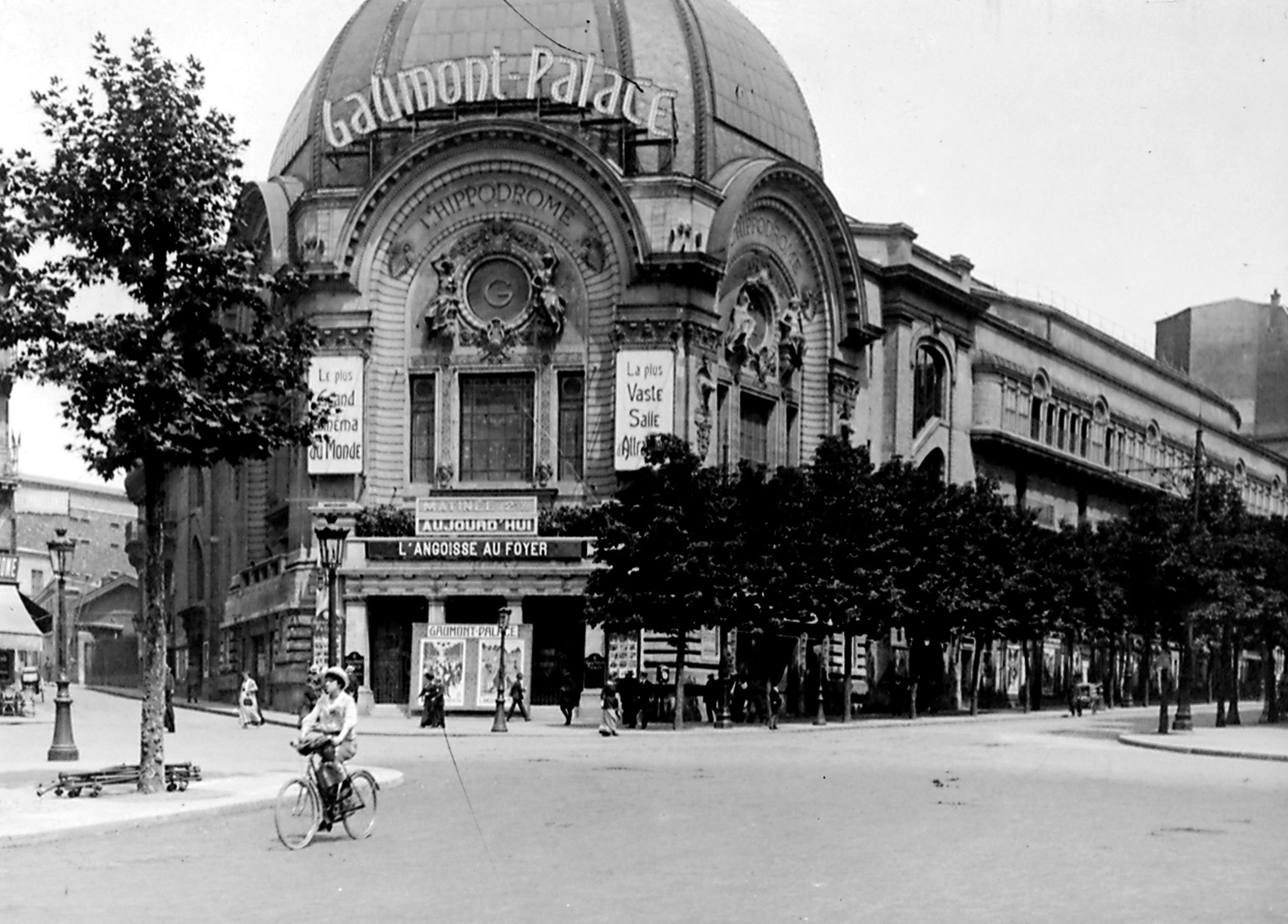 Le cinéma Gaumont Palace - Paris - 1912